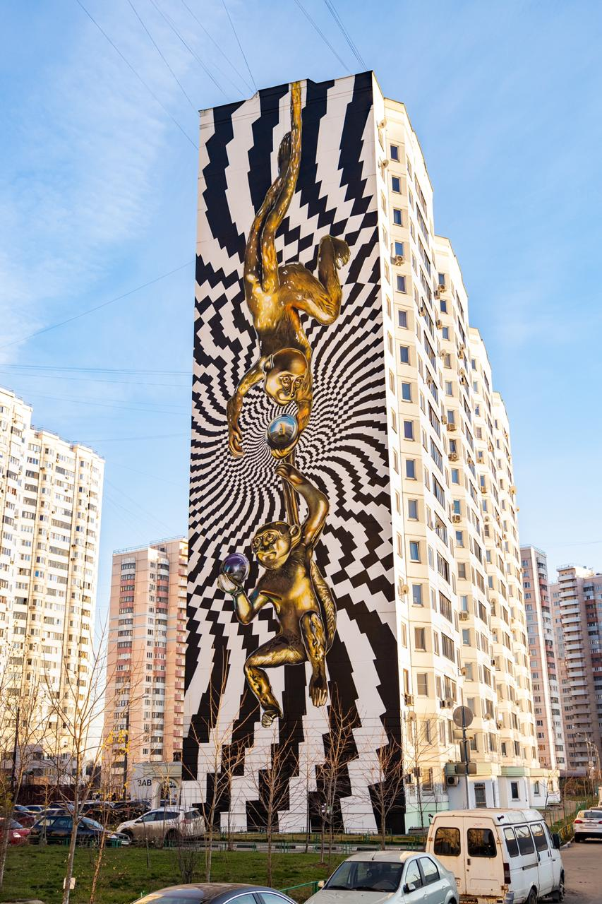 Mural by Dmitry Levochkin team. Urban Morphogenesis 2019 international street art festival, Odintsovo, New Trekhgorka Microdistrict